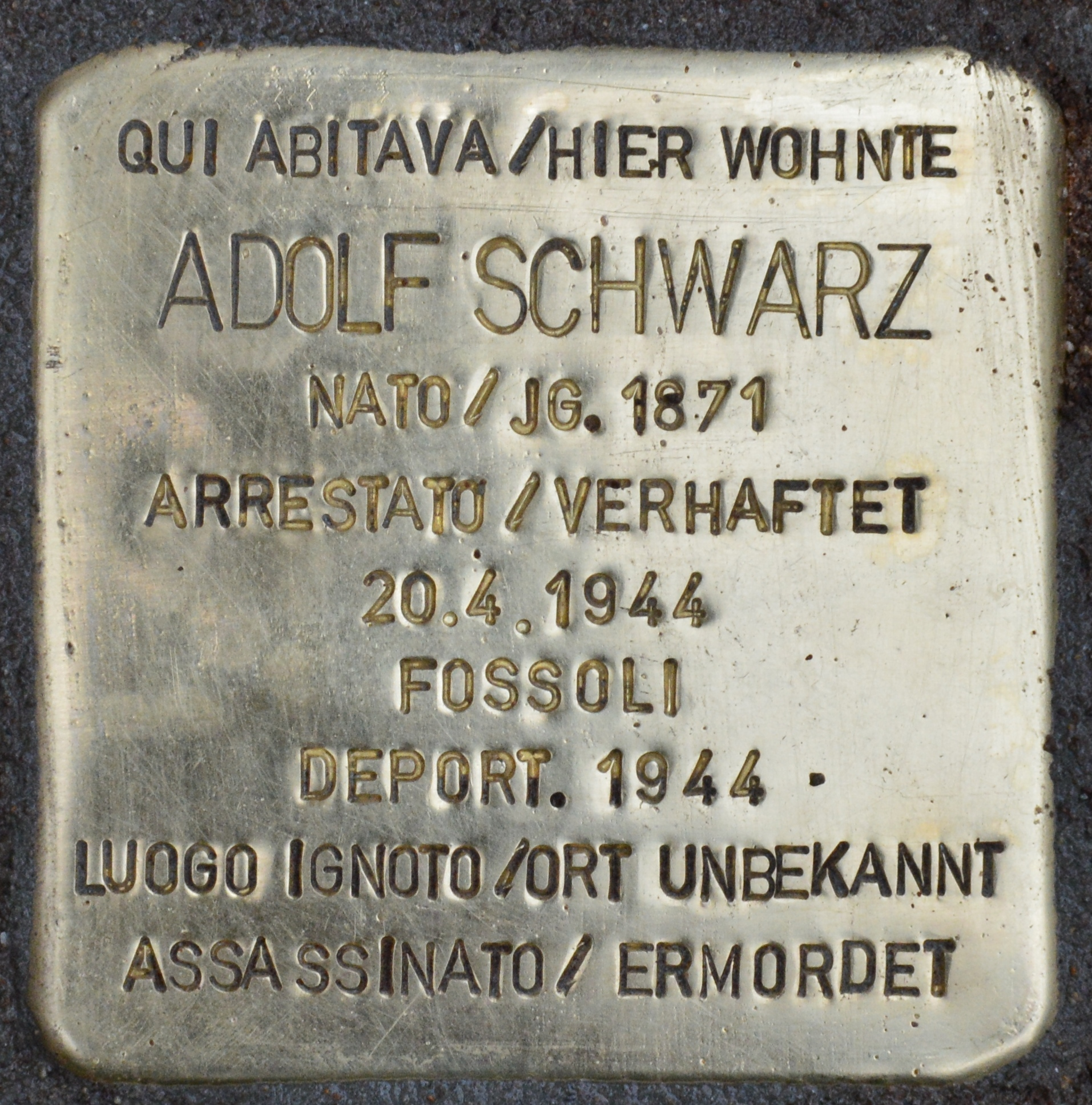 Stumbling Stone for Adolf Schwarz, placed in Bozen (South Tyrol)